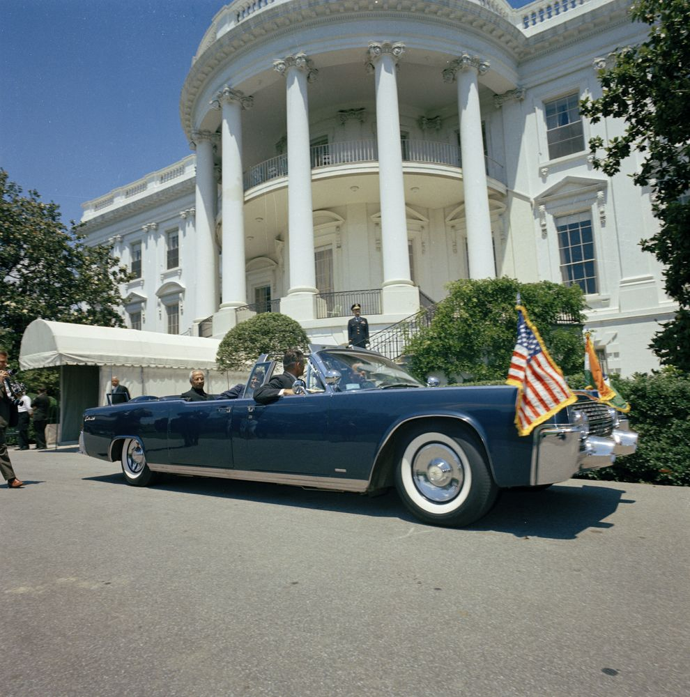 President John F. Kennedy and President of India, Dr. Sarvepalli Radhakrishnan, sit in the back seat of the presidential limousine (Lincoln-Mercury Continental convertible) as they depart the White House for a parade in honor of President Radhakrishnan. Seated in front seat: White House Secret Service agents, Gerald A. “Jerry” Behn (passenger seat) and Thomas Shipman (driver’s seat). South Lawn driveway, White House, Washington, D.C.